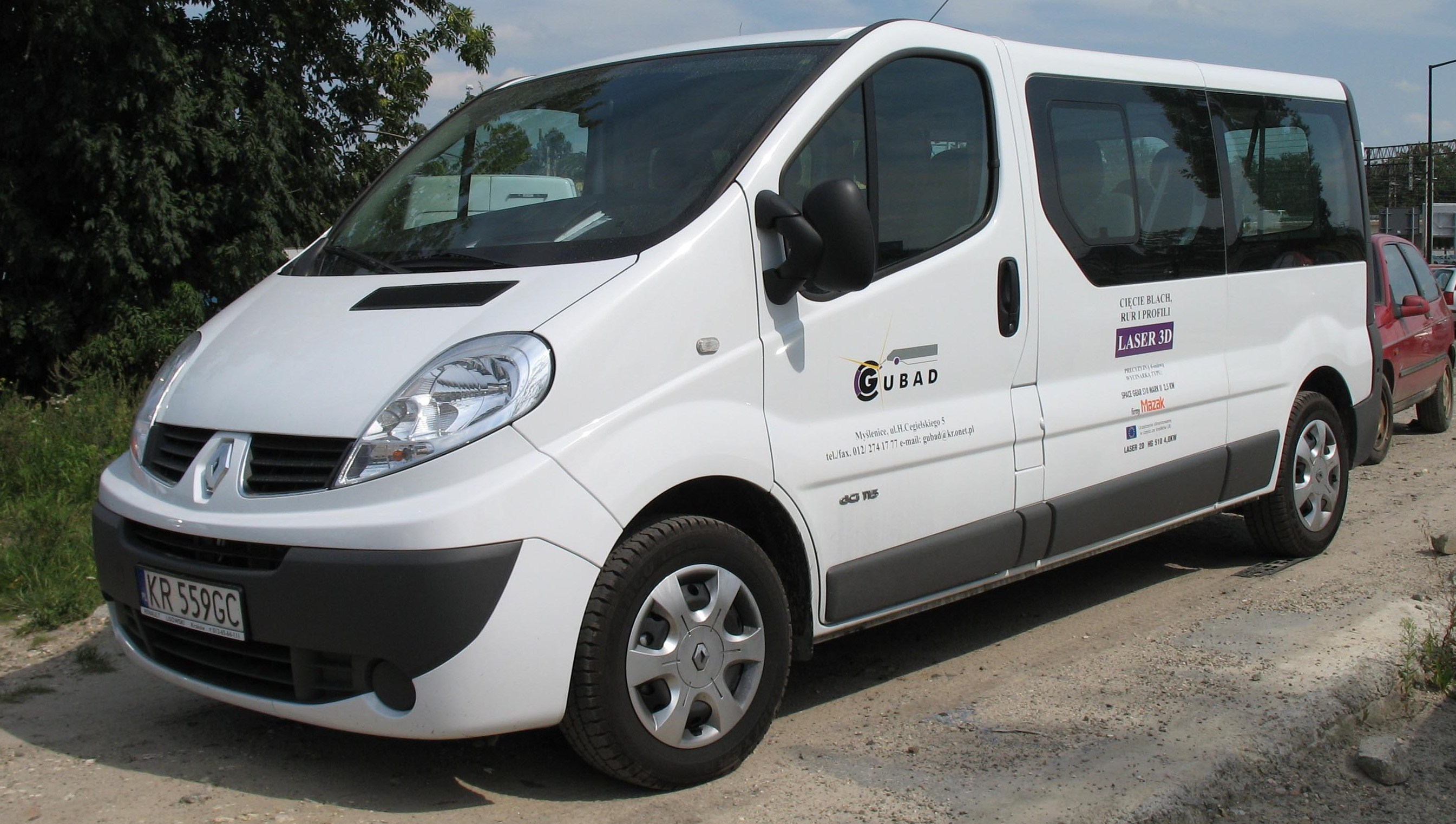 Renault Trafic in Krakow, Poland.